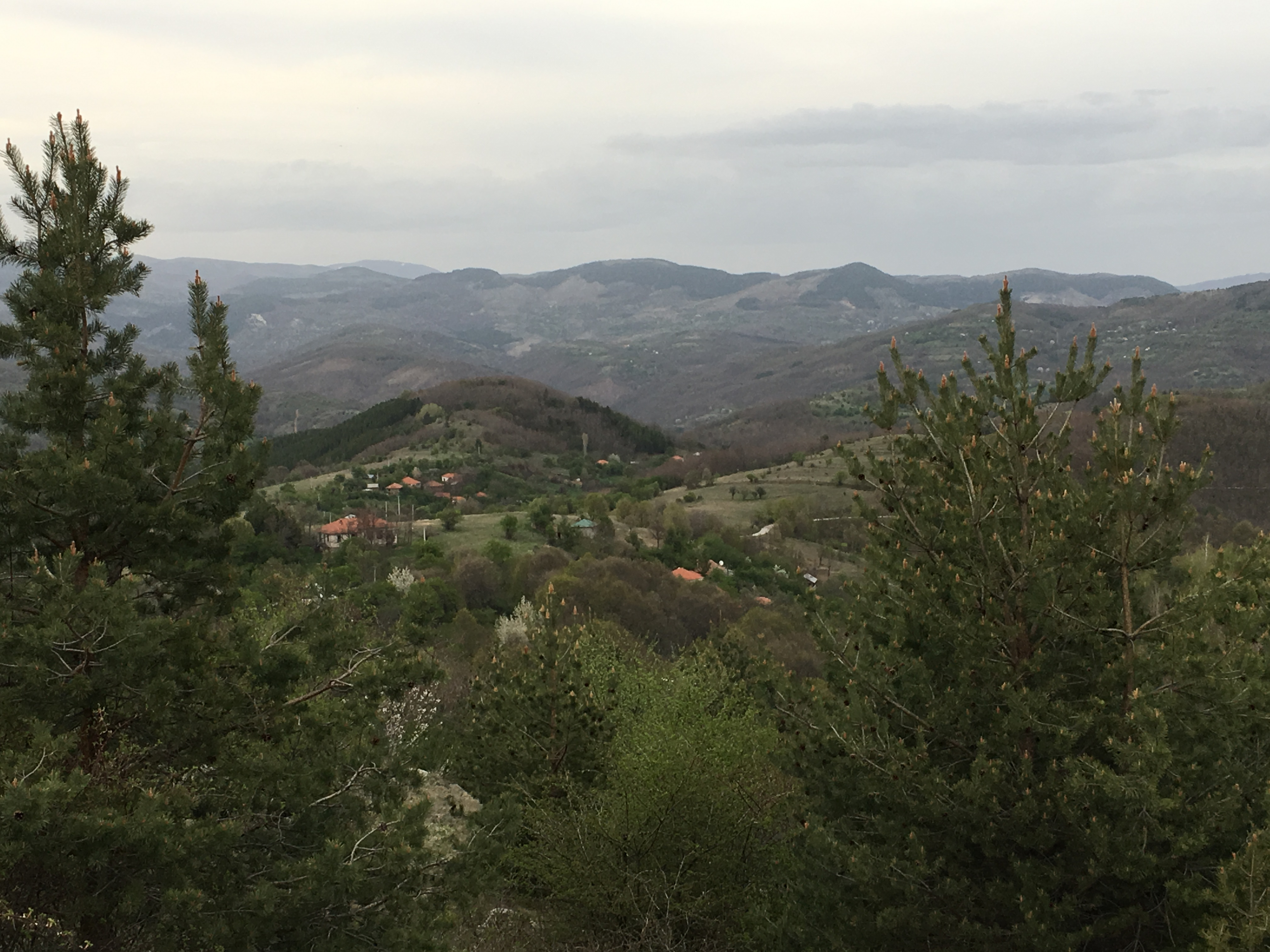 A view of the village of Osiče